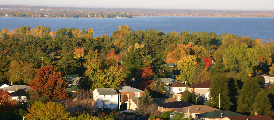 My own pictures